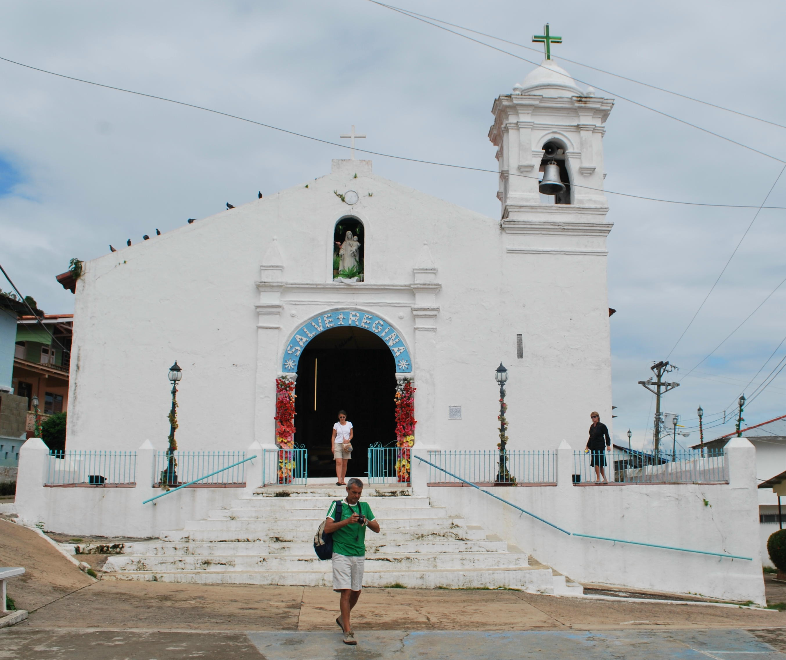 Iglesia San Pedro, Isla Taboga, Panama.